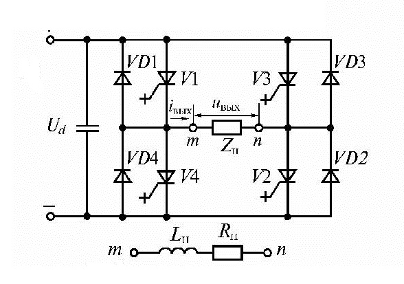 DerevenetsB